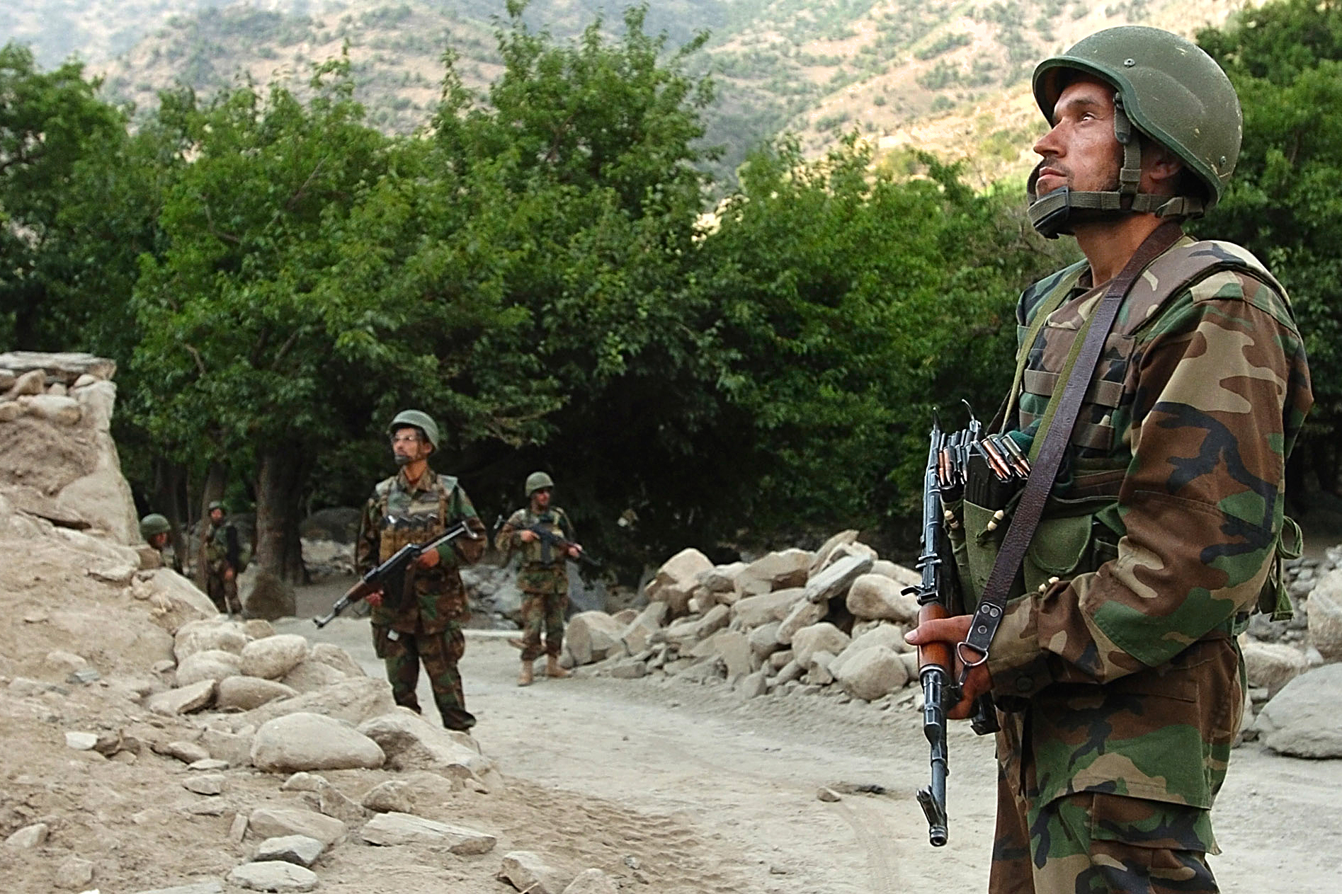 Afghan soldiers patrol Wadawu valley during Operation Silver Creek in Nuristan province, Aug. 7, 2009. During the operation, Afghan and coalition forces met with local village leaders to address security concerns during the country’s second national election, scheduled for late August. The U.S. soldiers are assigned primarily to the 4th Infantry Division's 2nd Battalion, 77th Filed Artillery Regiment. The U.S. Marines are assigned to the 3rd Marine Division. U.S. Army photo by Sgt. Matthew C. Moeller